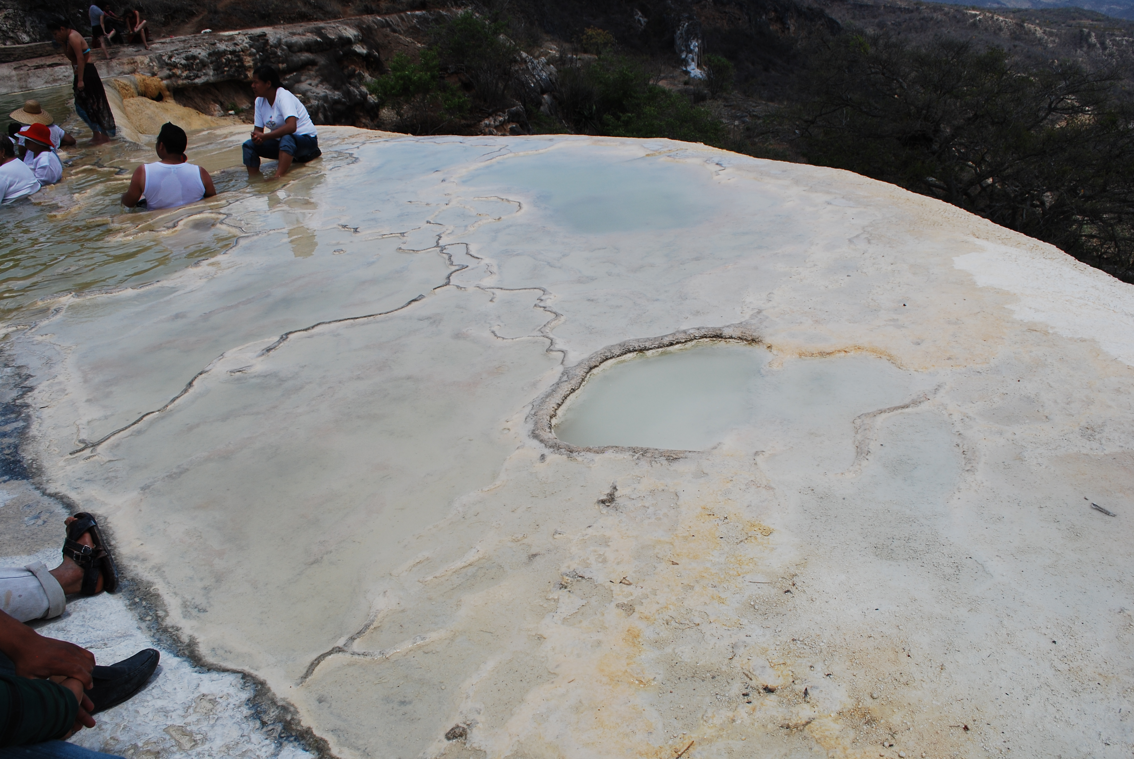 Small natural pools at Hierve el Agua, Oaxaca, Mexico